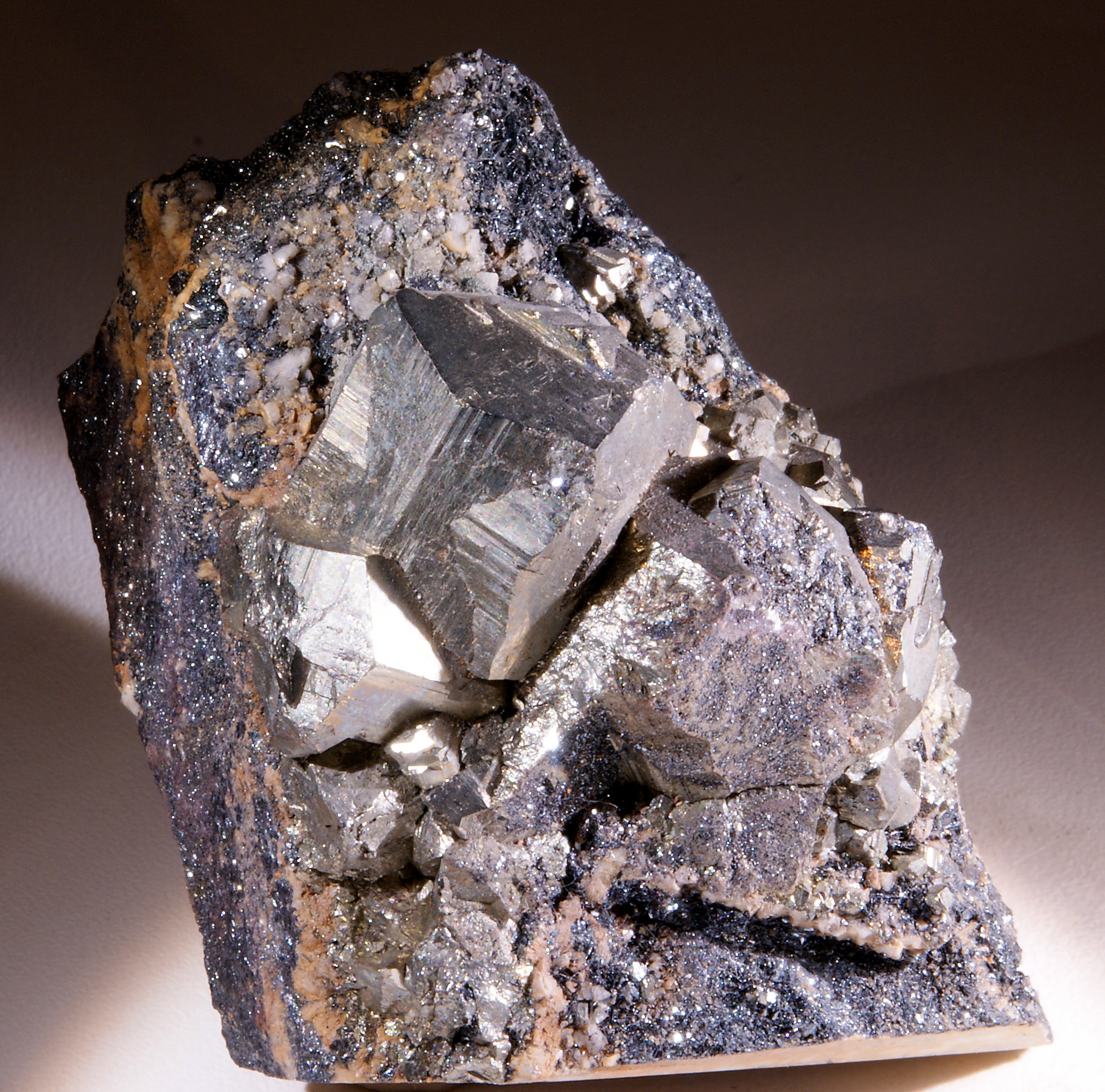 Pyrite Macle en « Croix de fer » - Mine de Batère (Pyrénées Orientales) - France (7x5cm)